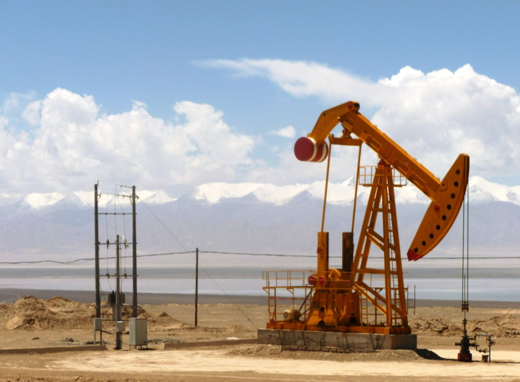 This oil well was near the road south of Charklik with the Nan shan mountains in background.